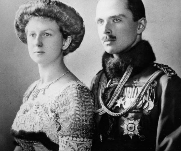 Information added by Wikimedia users.Portrait by Franz Langhammer.[1]